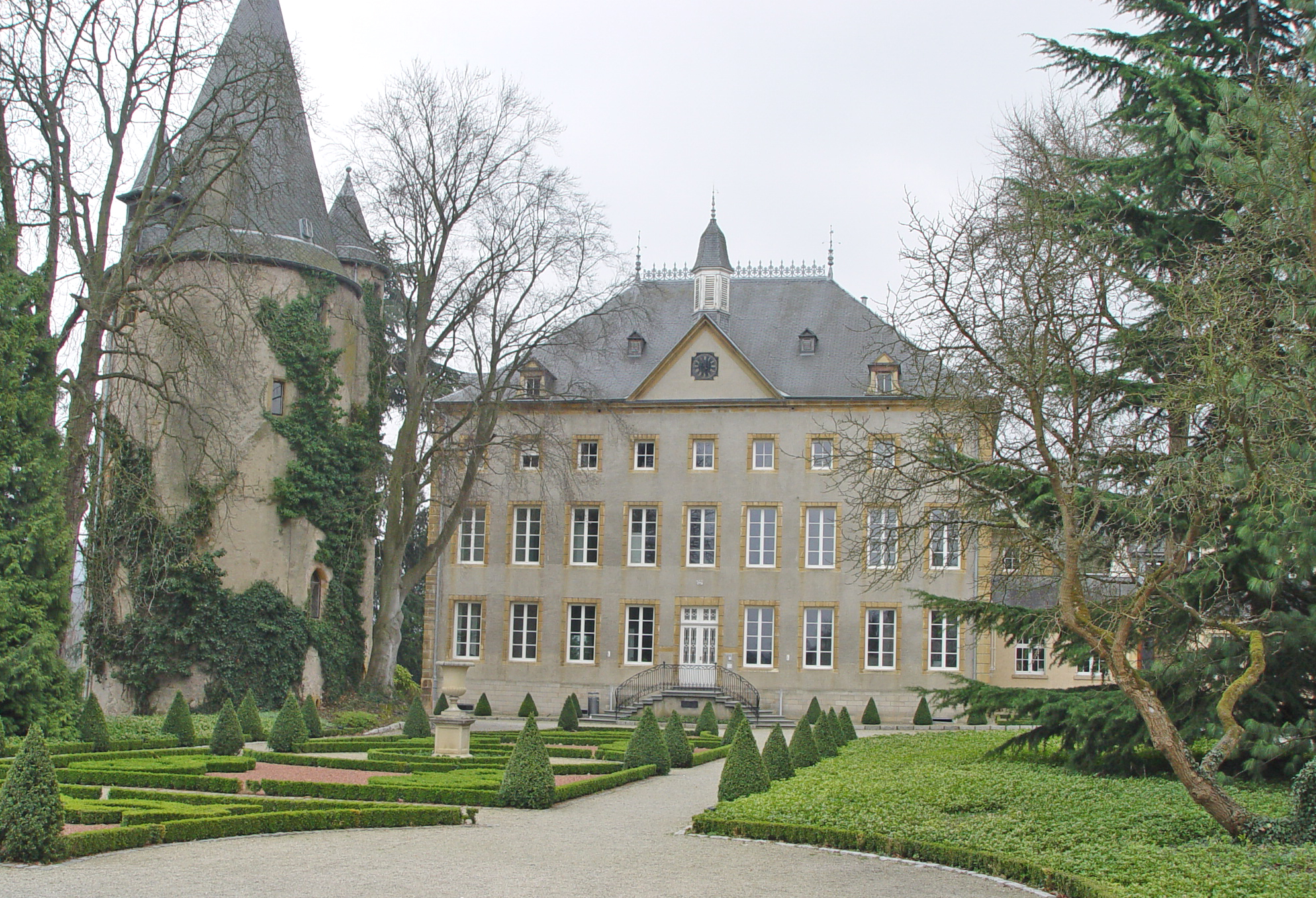 Castle in Schengen, Luxemburg